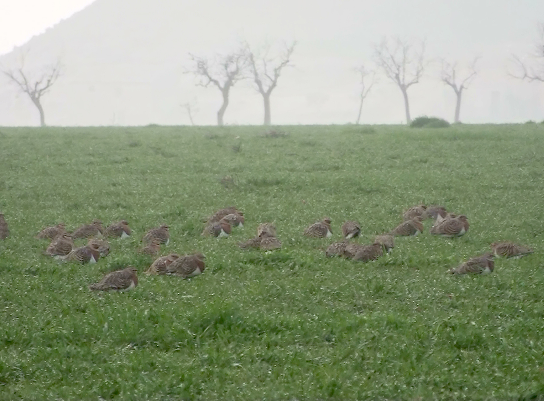 Flock of Pin-tailed Sandgrouse Pterocles alchata, on drylands near Lleida, northeast Spain. In Catalonia the breeding population of this species is restricted to a single site.